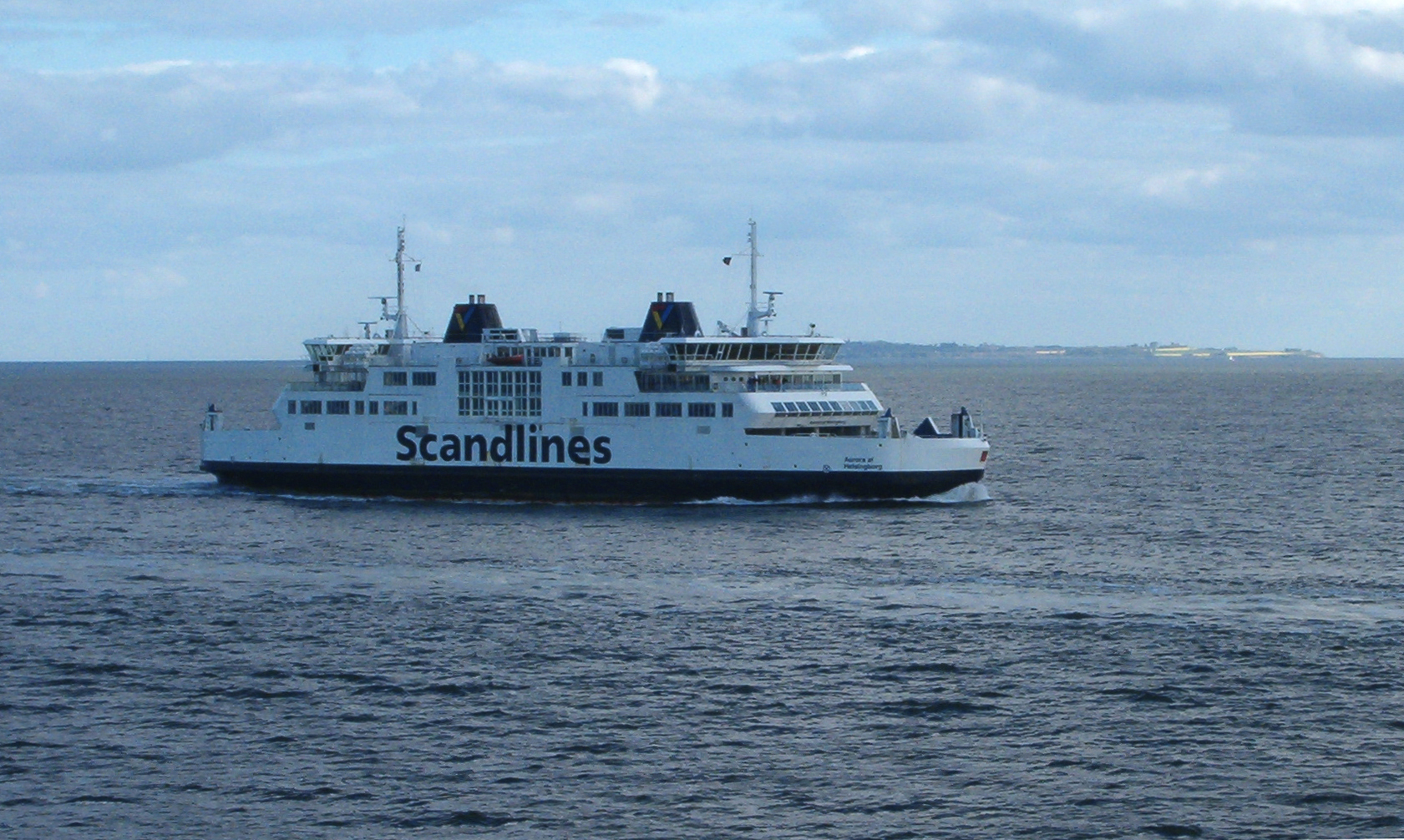 Scandlines ferry M/S Aurora of Helsingborg.